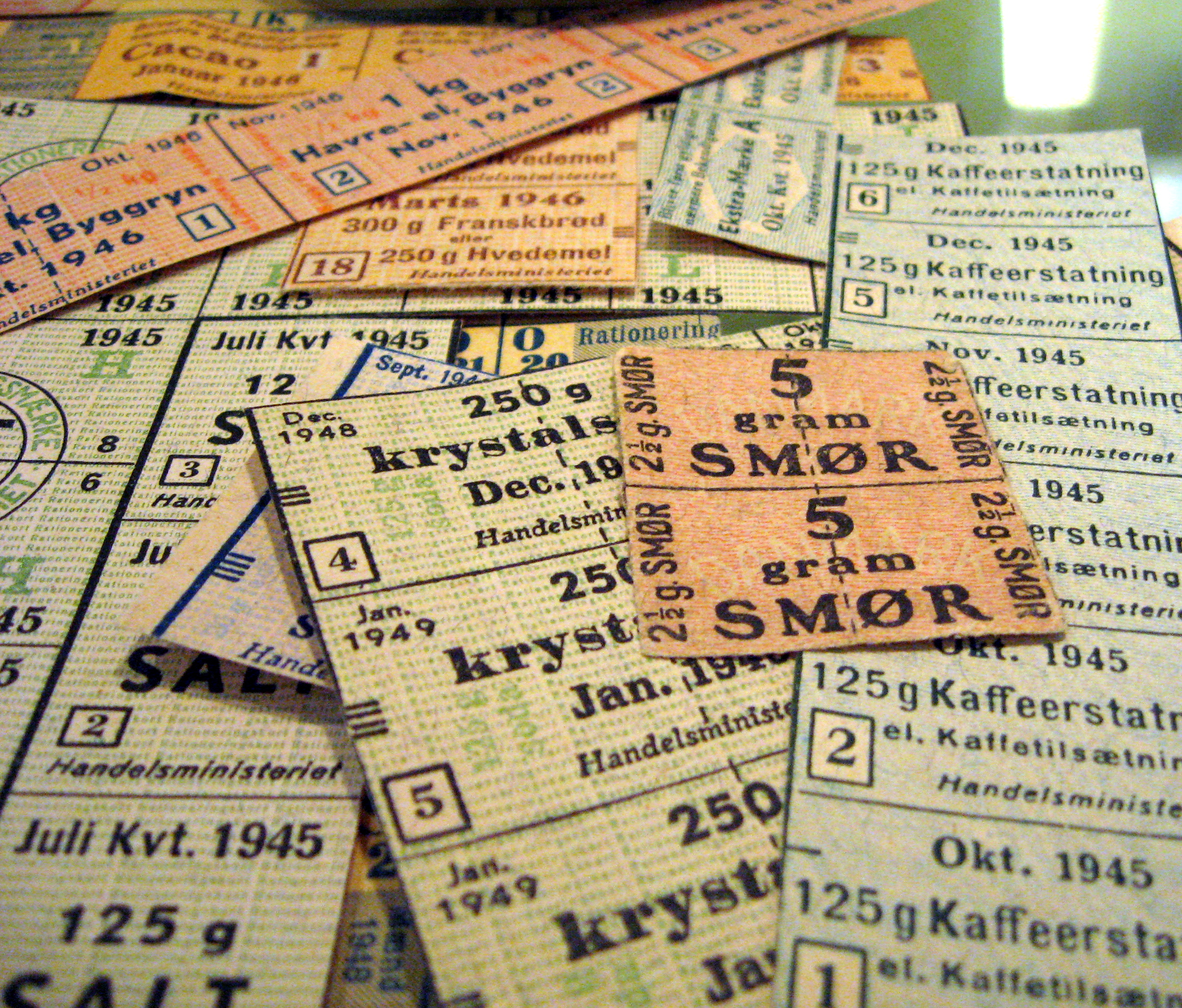 Danish ration stamps from 1945-49